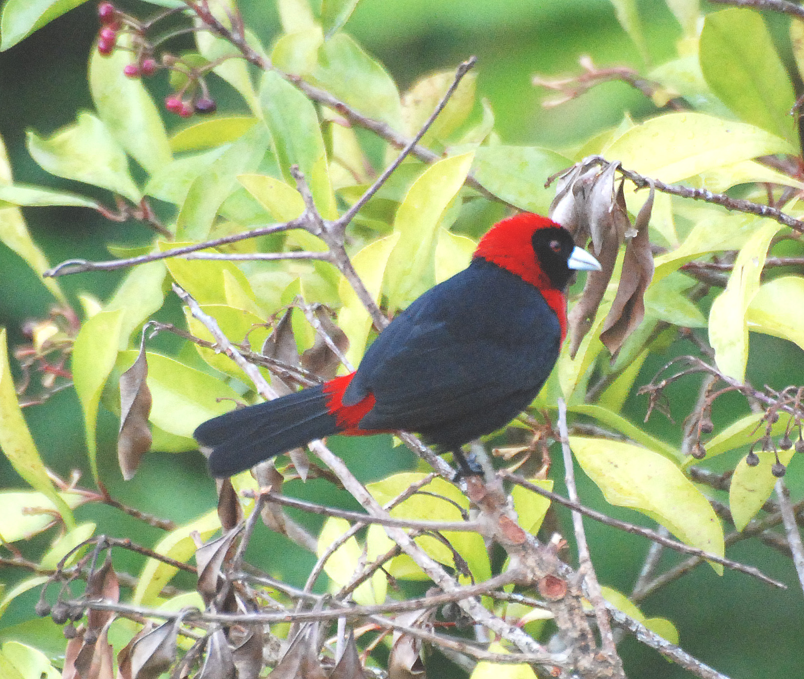 Crimson-collared Tanager (Ramphocelus sanguinolentus) at the Arenal Volcano Lodge, Costa Rica, 080224.